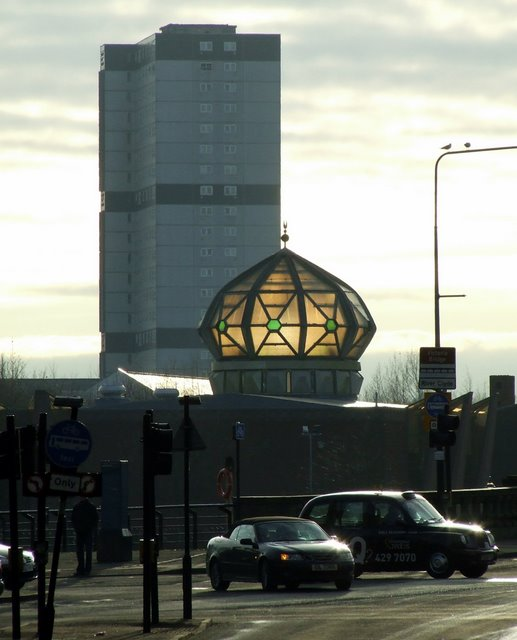 Glasgow Central Mosque Viewed from Stockwell Street.